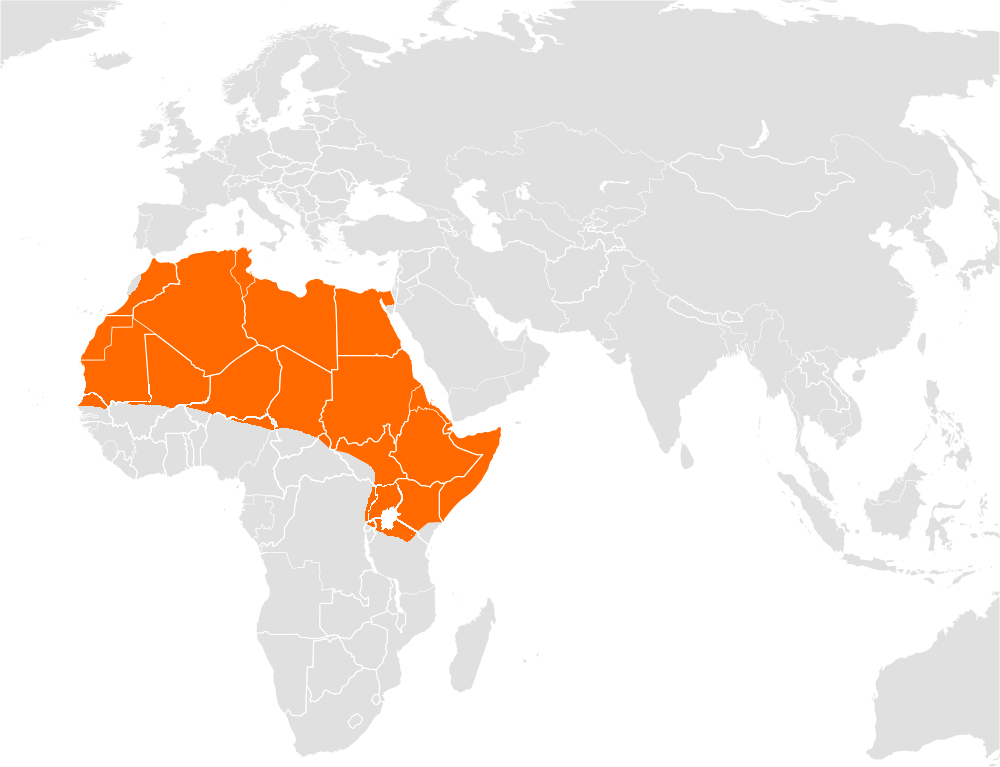 Based on map and species range description in Castelló, José R. Canids of the World, Princeton UP, 2018, p. 126-131.